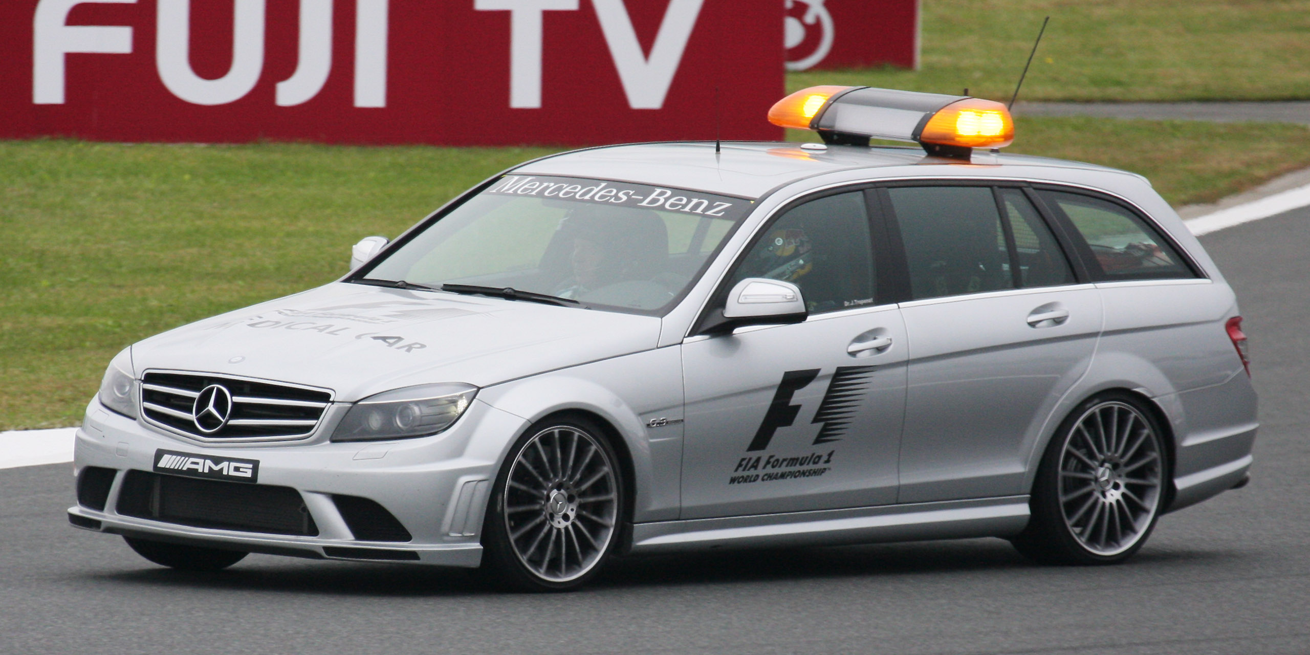 Formula One 2008 Rd.16 Japanese GP: Sébastien Buemi driving the medical car for FIA at the 2008 Japanese Grand Prix.